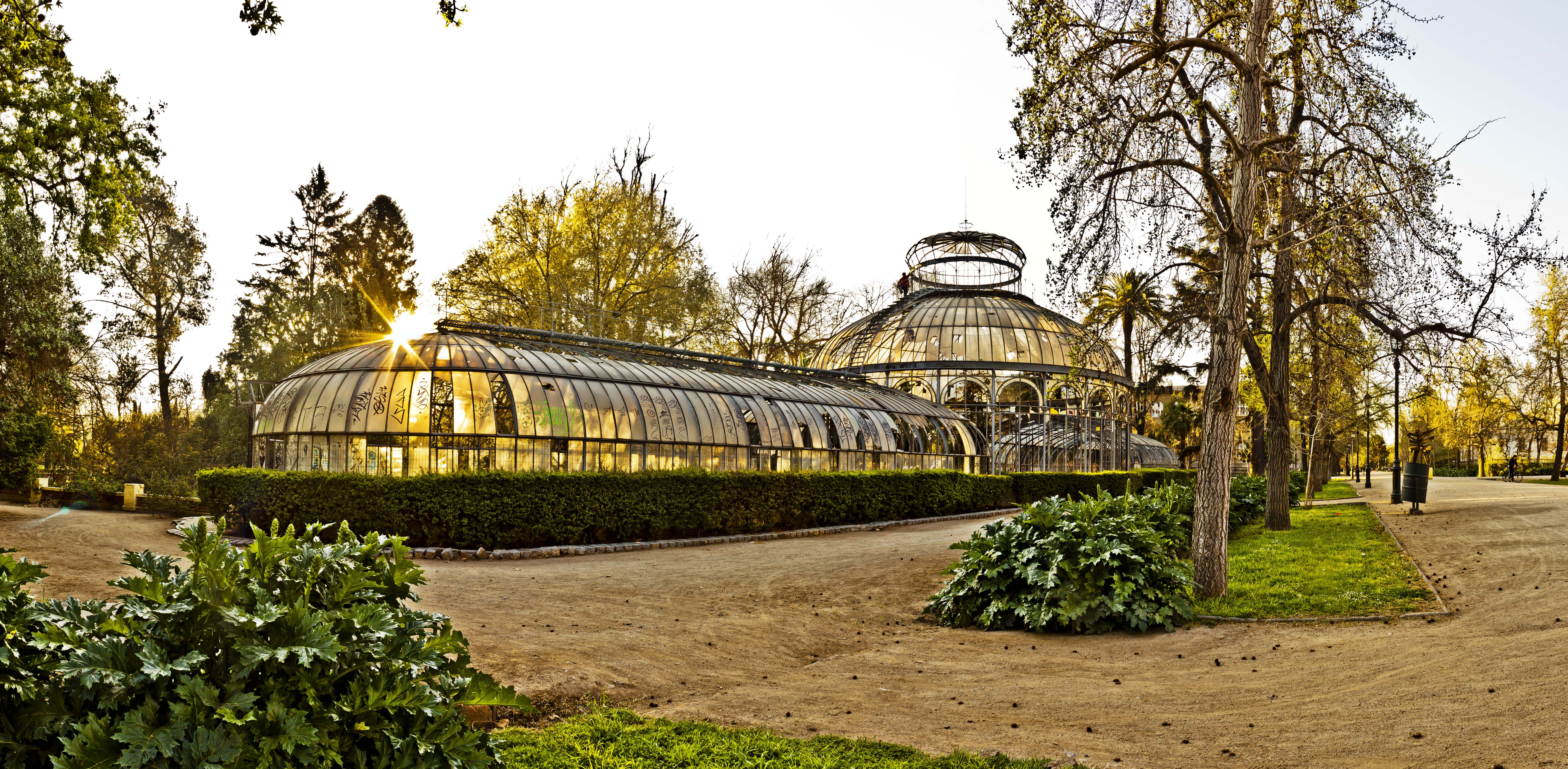 This greenhouse is inside the grounds of the Quinta Normal Park which is at Matucana Av. between Santo Domingo st. and Portales Av., Santiago. The greenhouse was built in 1853 under the orders of Rodolfo Philippi, a German-Chilean paleontologist and zoologist, and is currently under restoration. This is a photo of a national monument in Chile: 2119